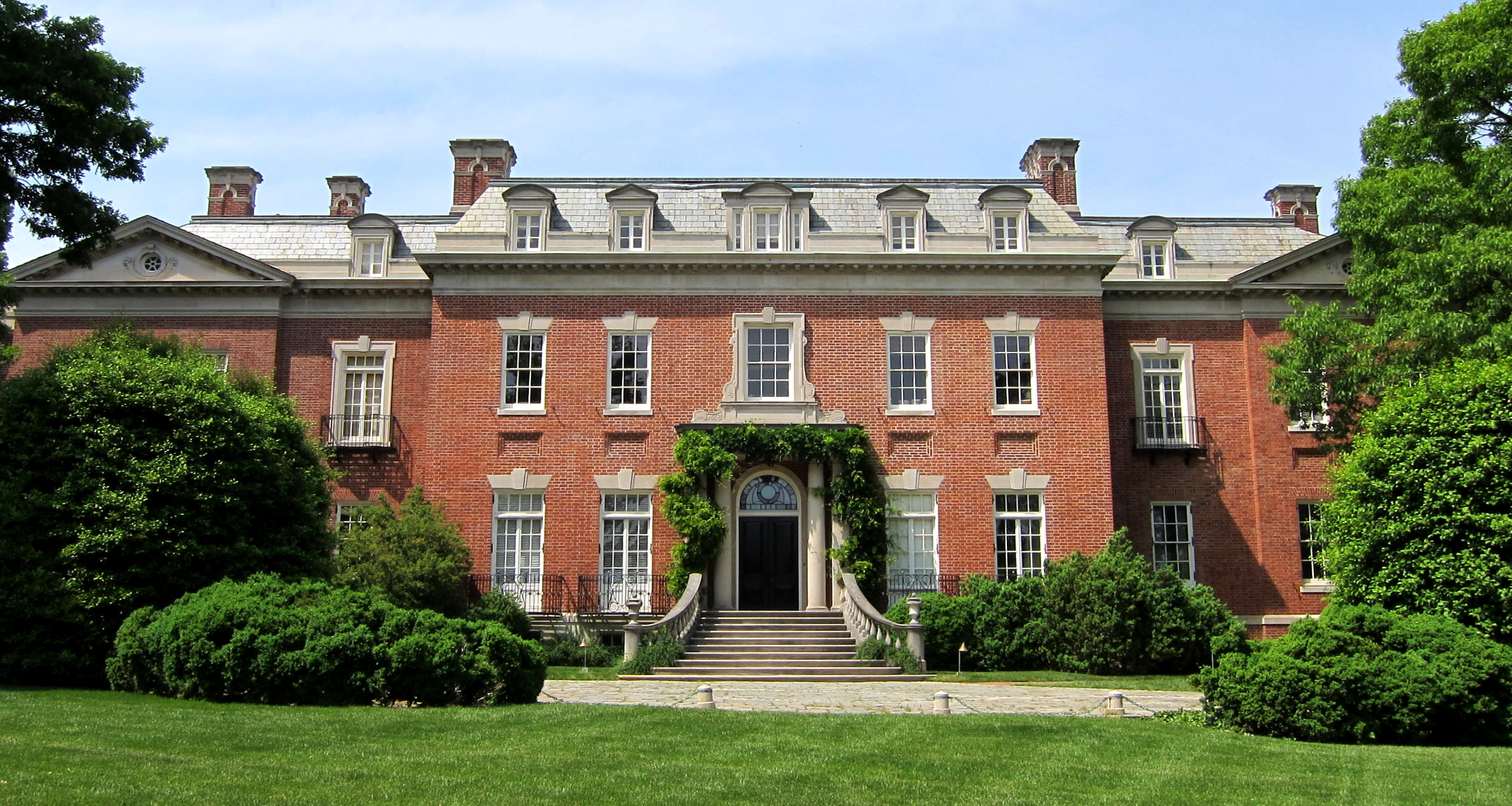 The facade of Dumbarton Oaks, a historic estate and home to the Dumbarton Oaks Research Library and Collection, located at 3101 R Street NW in the Georgetown neighborhood of Washington, D.C. The central portion of the home was built in 1801 by William Hammond Dorsey. Later in the 1800s, owner Edward Magruder Linthicum greatly expanded the residence and named it The Oaks. The home's most notable past resident is Senator and Vice President John C. Calhoun, who lived at The Oaks from 1822-1829. In 1920, Mildred and Robert Woods Bliss purchased the property and began a multiyear renovation and expansion. The finished project, renamed Dumbarton Oaks, was designed by architect Frederick H. Brooke in the Colonial Revival style. The enlarged gardens were designed by landscape architect Beatrix Farrand. In 1940, the house and a portion of the gardens were given to Harvard University, Robert Bliss’ alma mater. The estate was added to the District of Columbia Inventory of Historic Sites in 1964. The building is also designated a contributing property to the Georgetown Historic District, a National Historic Landmark listed on the National Register of Historic Places in 1967.